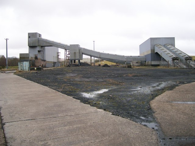 Coaling and crushing plant, New Cumnock, Scotland. General view of the plant, now disused.